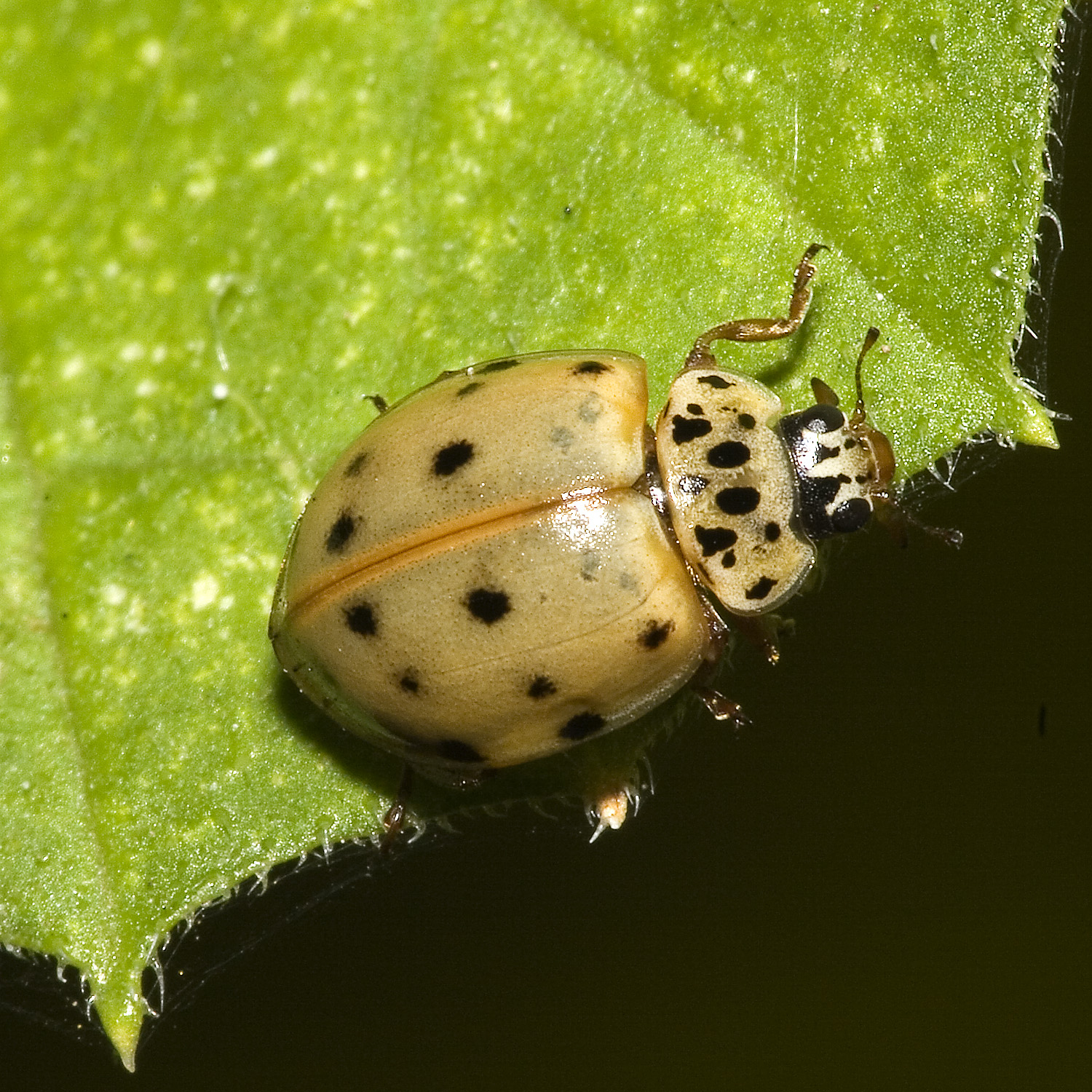 cream-streaked ladybird